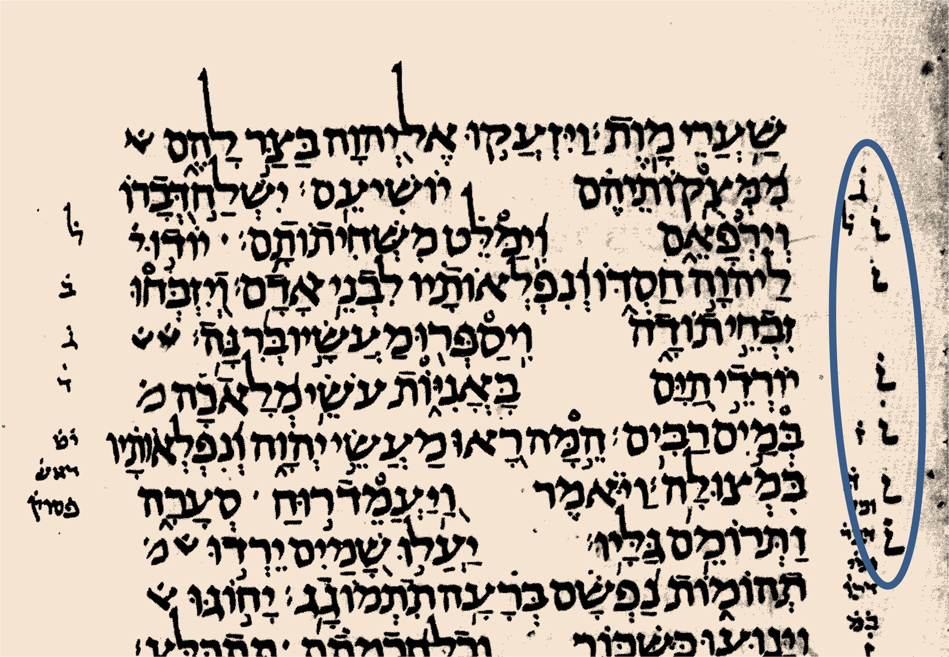 Inverted nun (6) in Leningrad Codex, (Palm. 107, 20-26)